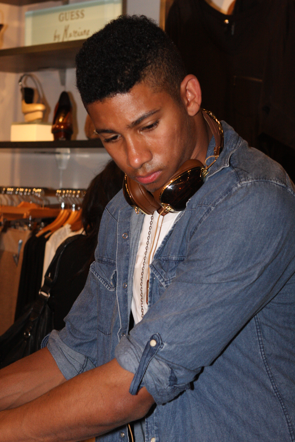 Guess hosts ladies night with CLEO Bachelors; Sydney, Australia Four of the most prolific Cleo Bachelor 2012 finalists were in attendance at today's beauty industry event at Westfield Sydney. Surfer and Masterchef hunk Hayden Quinn; X Factor's Johnny Ruffo; entrepreneur Andrew McIver and DJ Keiynan Lonsdale, all provided tunes for the evening. Hosted by Cleo editor Gemma Crisp, the lucky 100 guests all enjoyed champagne and canapes before being invited to a 'style off' with their friends; dressing each other in items from the Guess store. The final looks were judged by the Cleo Bachelors and the winner received coveted tickets to the Cleo Bachelor of the Year 2012 grand finale event. Thank you and well done to everyone who helped make today possible.